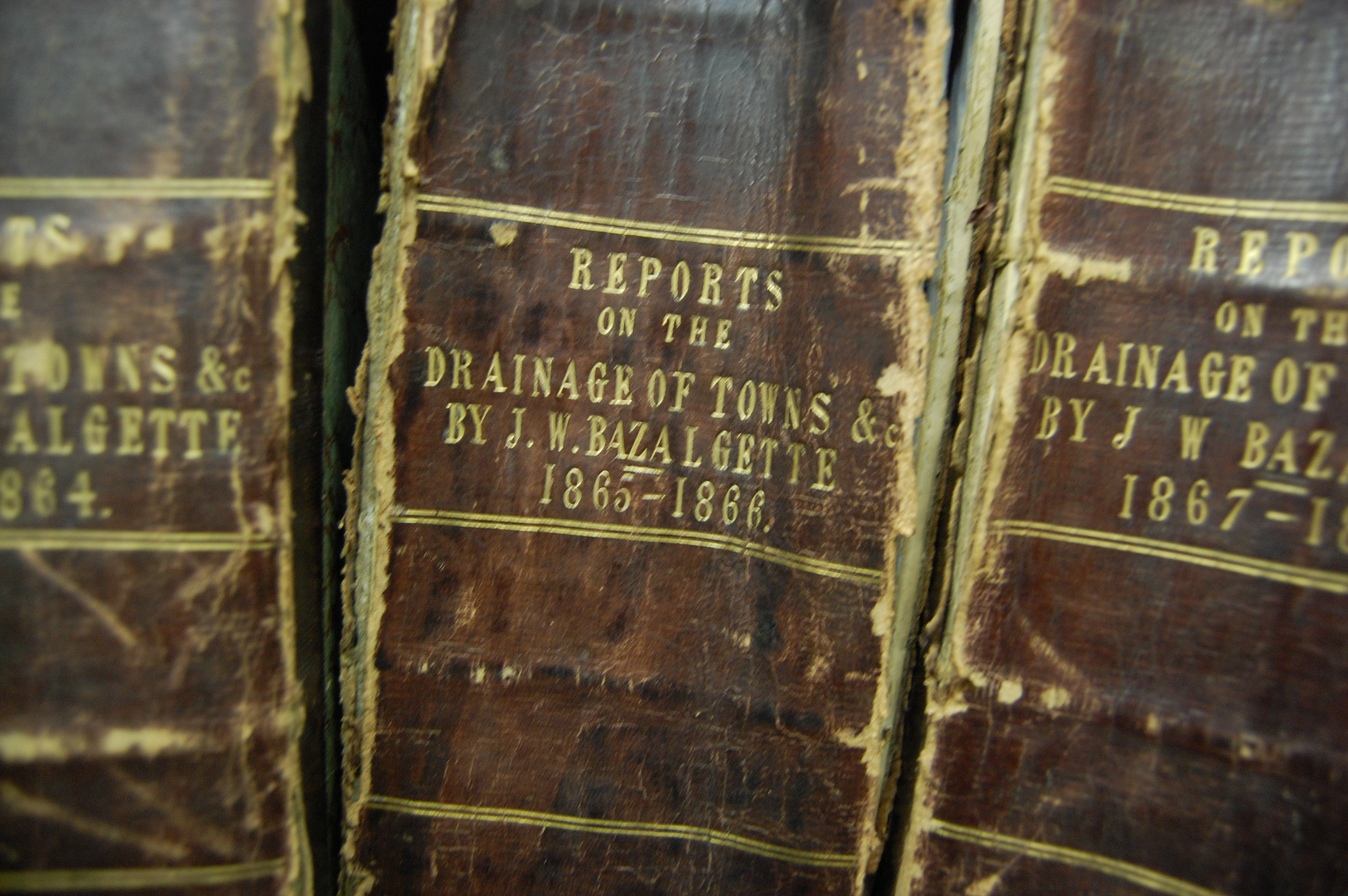 Reports on the Drainage of Towns & c by J.W. Bazalgette, 1858-1864, 1865-1866, 1867-1871, in the ICE archives. Taken at a Wikipedia editathon at the Institution of Civil Engineers, at their headquarters, One Great George Street, London.